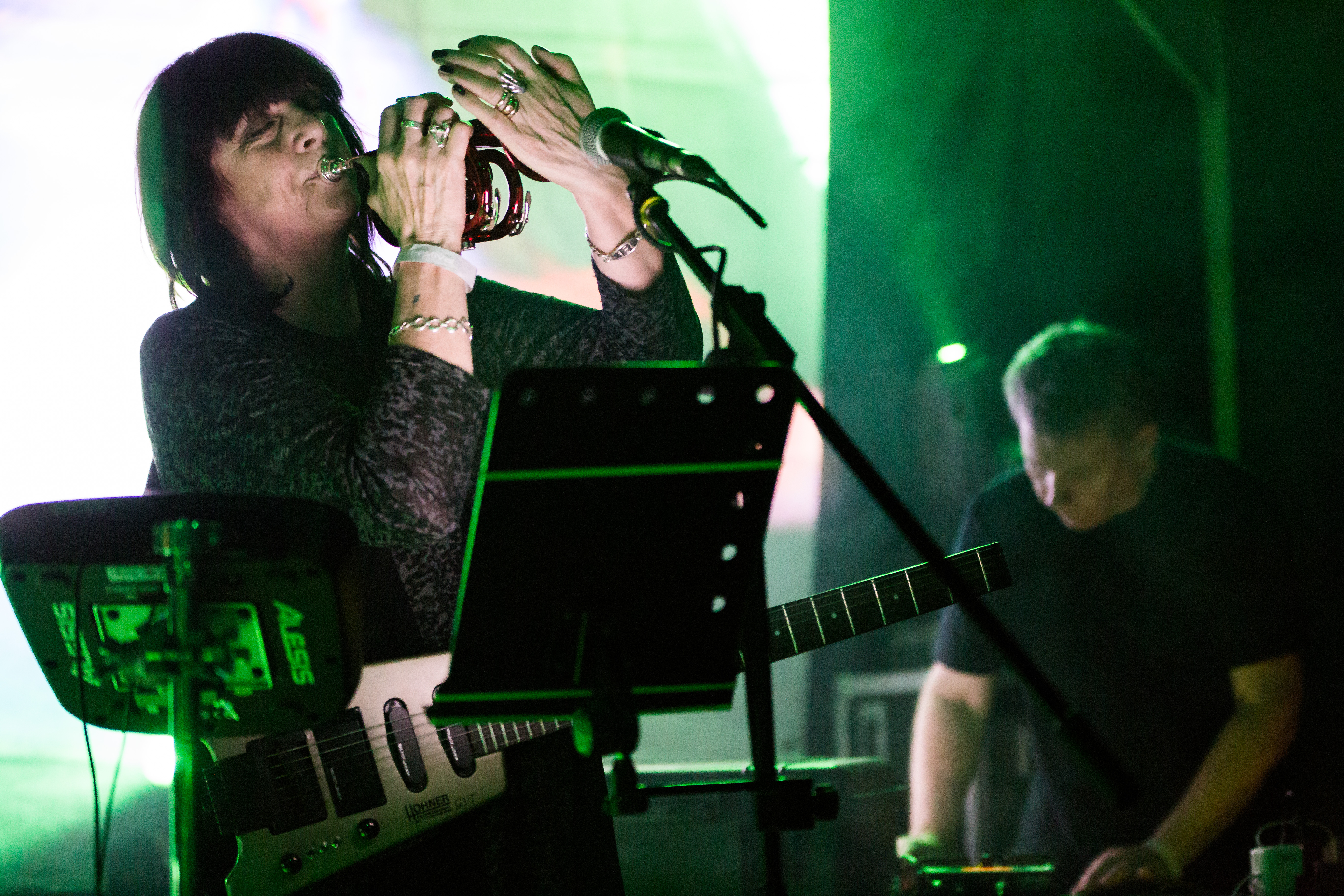 Chris & Cosey performing in 2014 Flickr Tags: Schlagstrom Berlin Festival Concert Industrial Ambient Noise Electronic Music Betriebsbahnhof Schöneweide Chris & Cosey Carter Tutti Chris Carter Cosey Fanni Tutti. from Flickr album "2014-08-02 Schlagstrom Festival Berlin Day 2" by Carsten Stiller